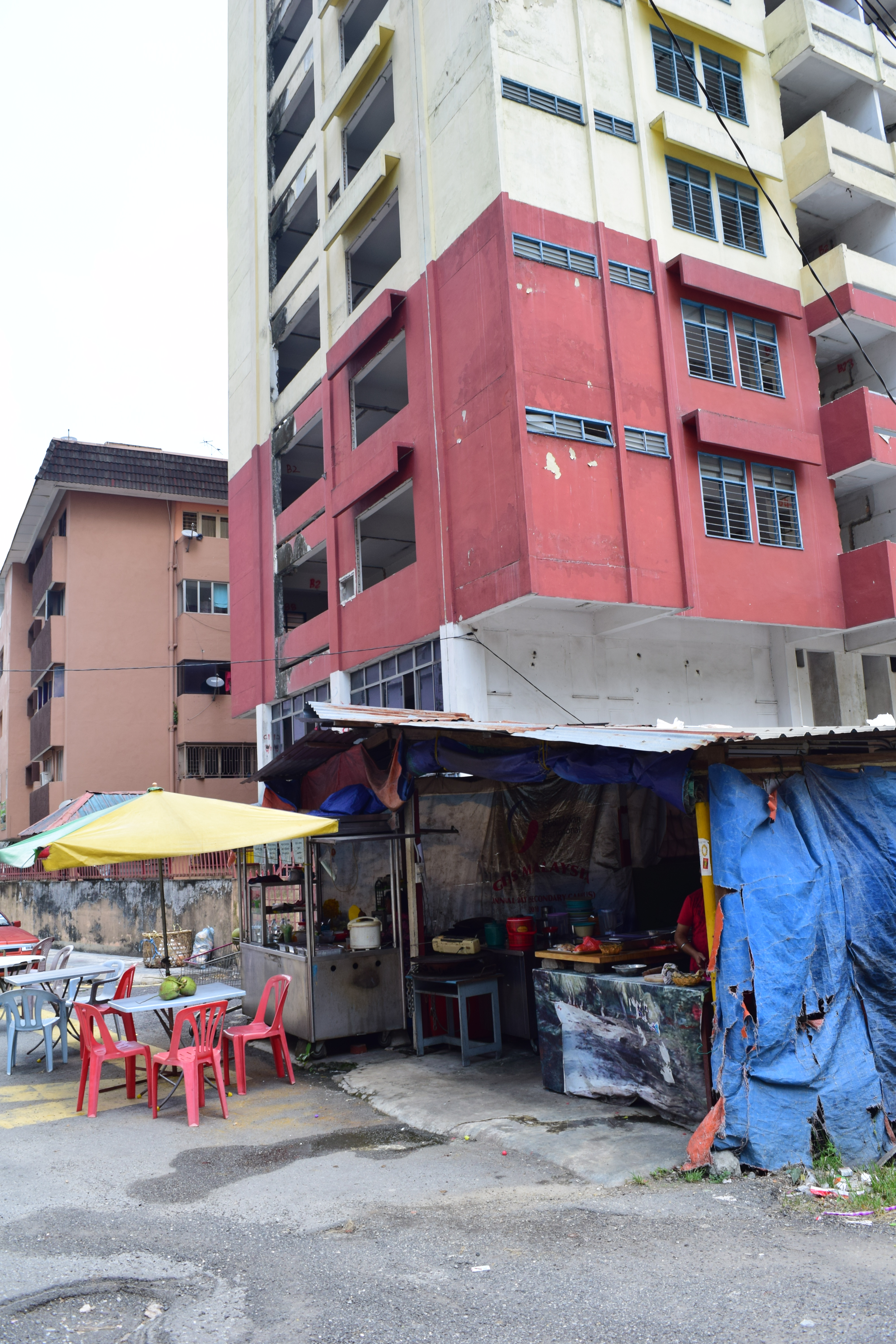 Stall located outside of the Flat